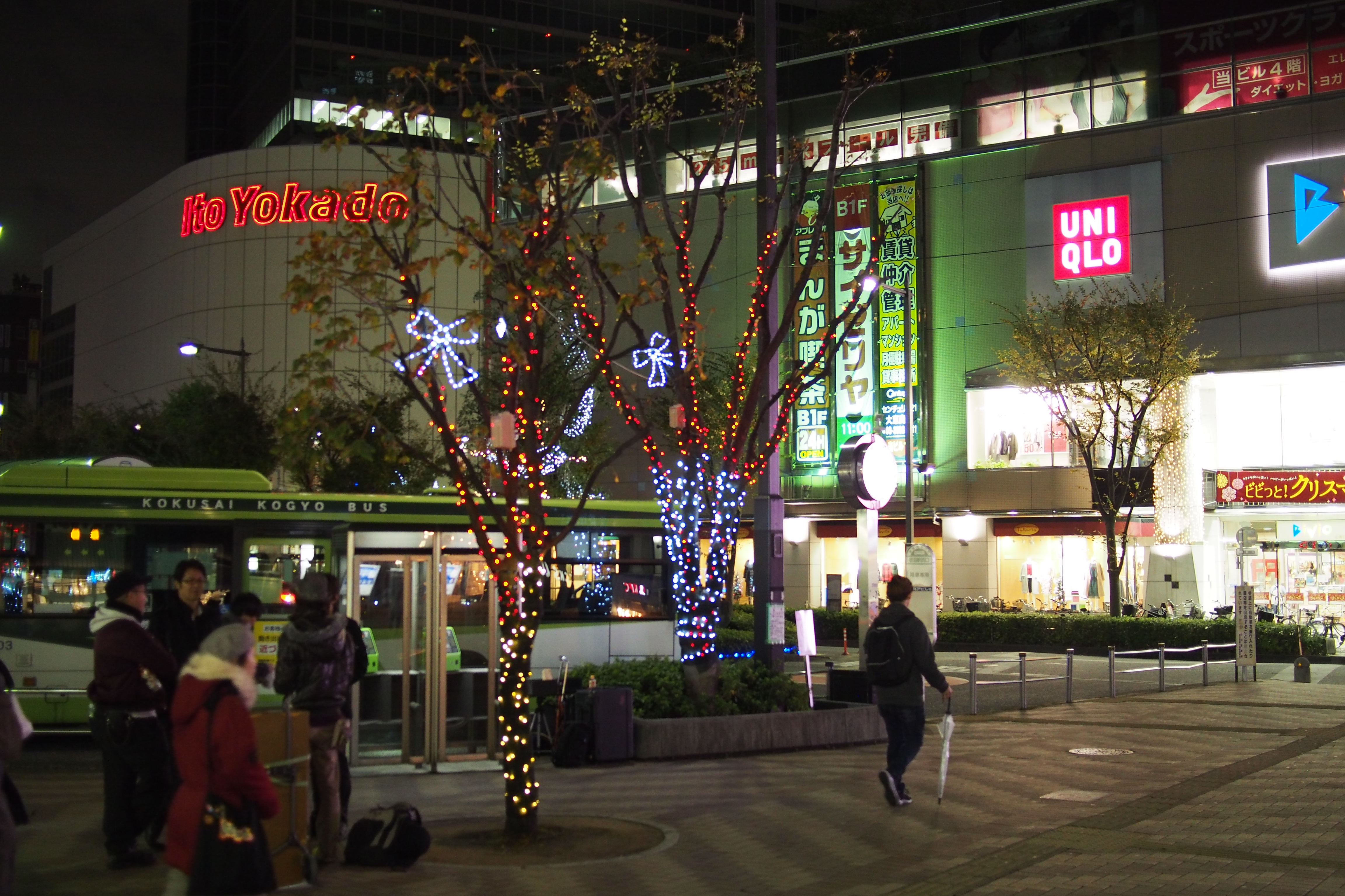 Akabane station Christmas illuminations